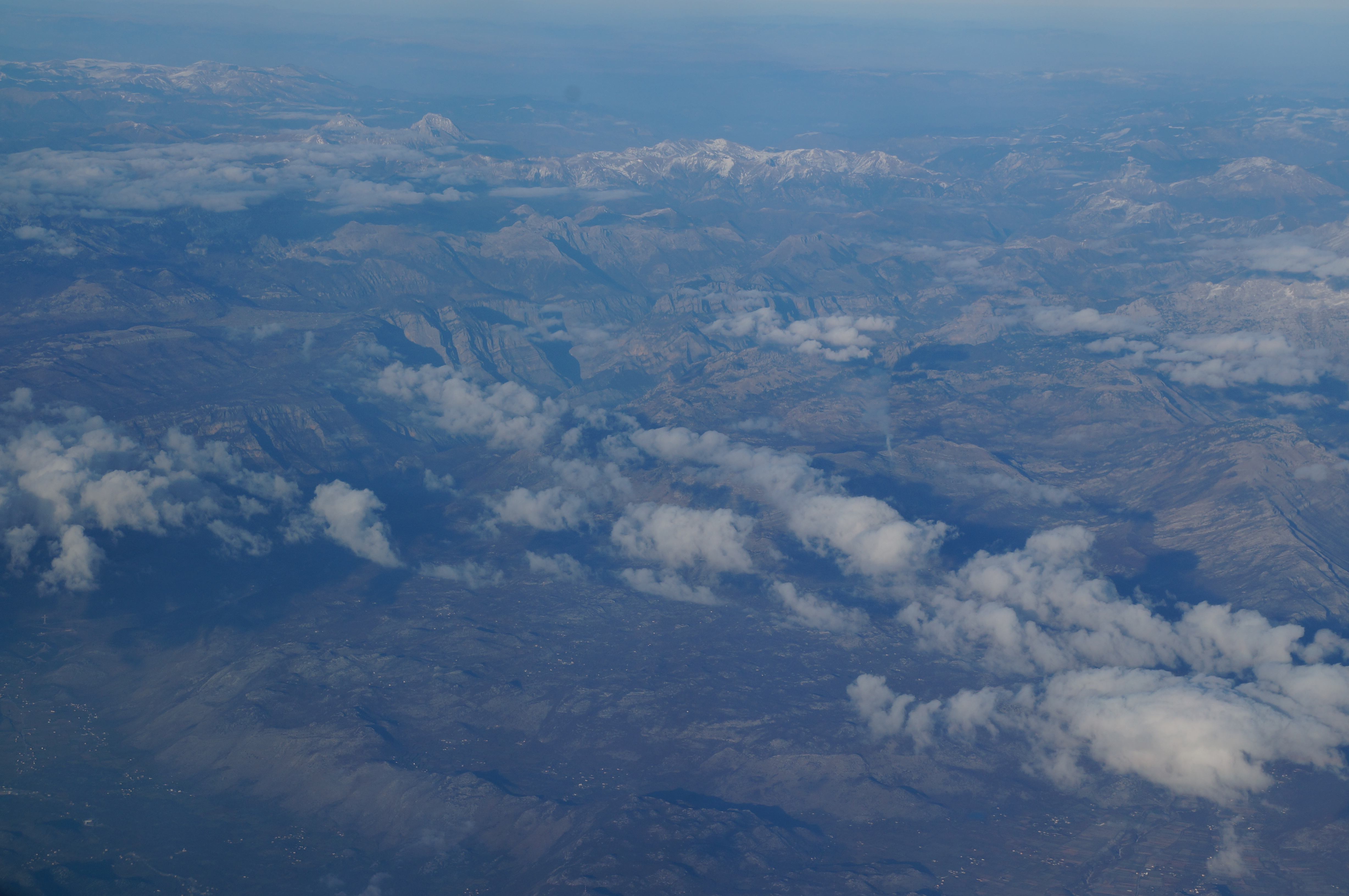 Albanian Alps seen from South West